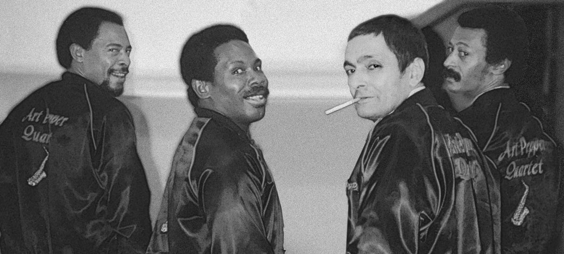 Art Pepper with his final quartet: Carl Burnett, George Cables, Art, David Williams